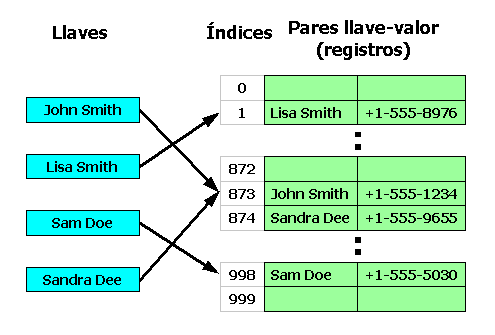 modified version of